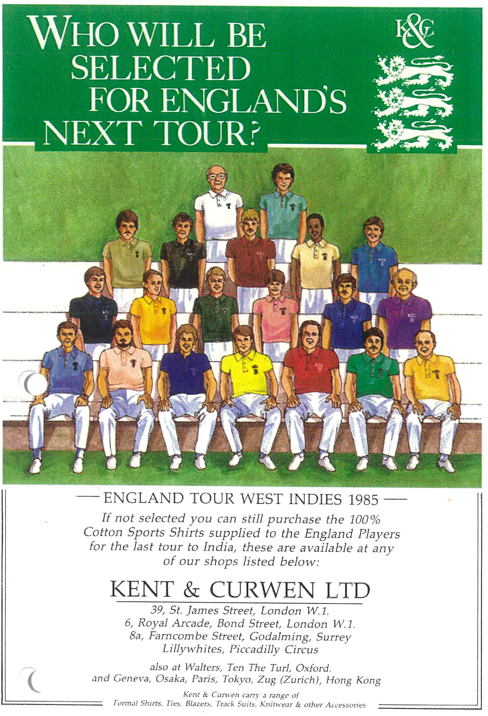 Kent & Curwen Advertisement in 1985